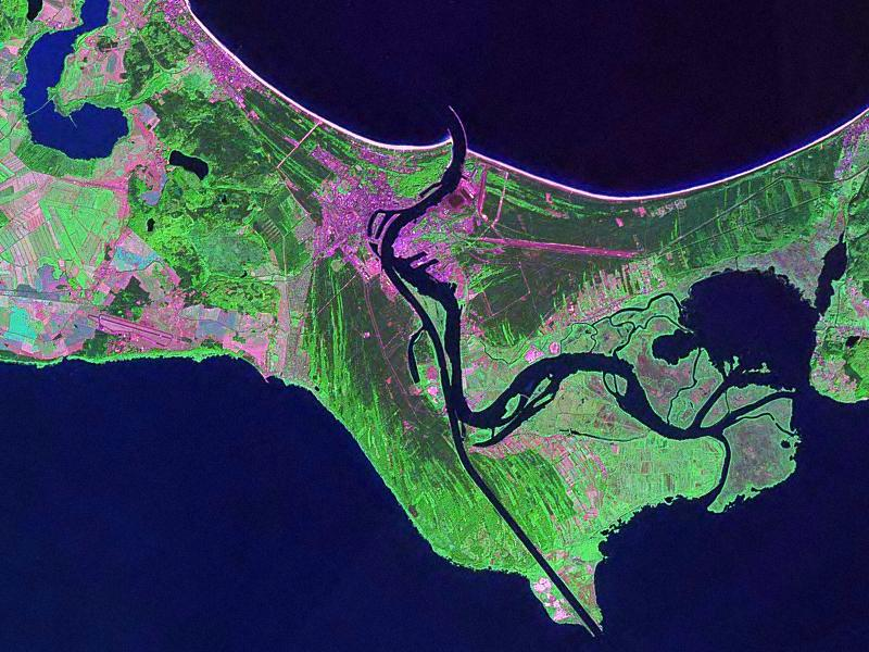 Landsat satellite photo of town of Świnoujście and the Świna, a seagat that separates the islands of Usedom (left) and Wolin (right), southern Baltic Sea coast, northeastern Germany/northwestern Poland.